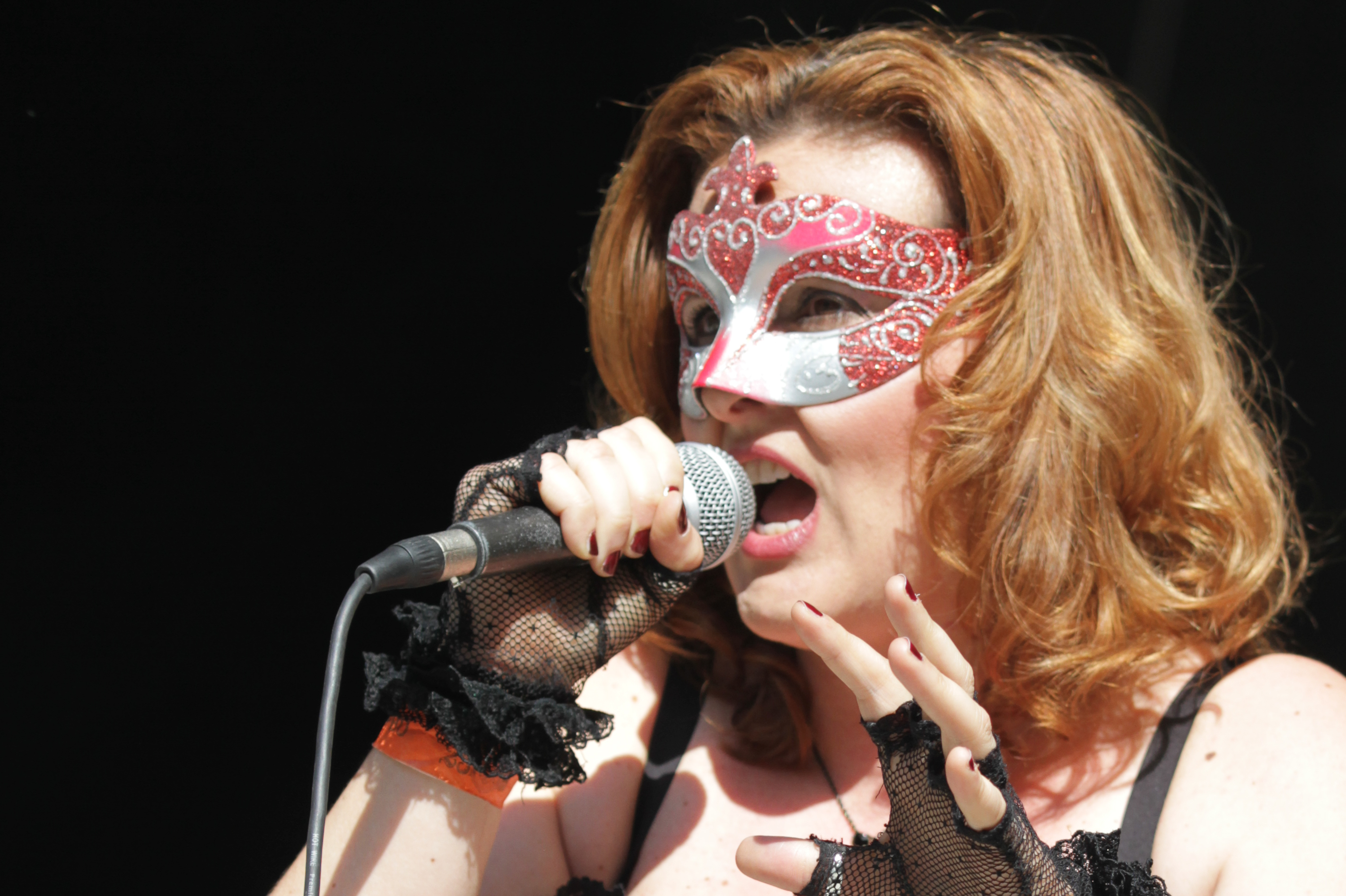 Violet Tears at the Wave-Gotik-Treffen 2014.